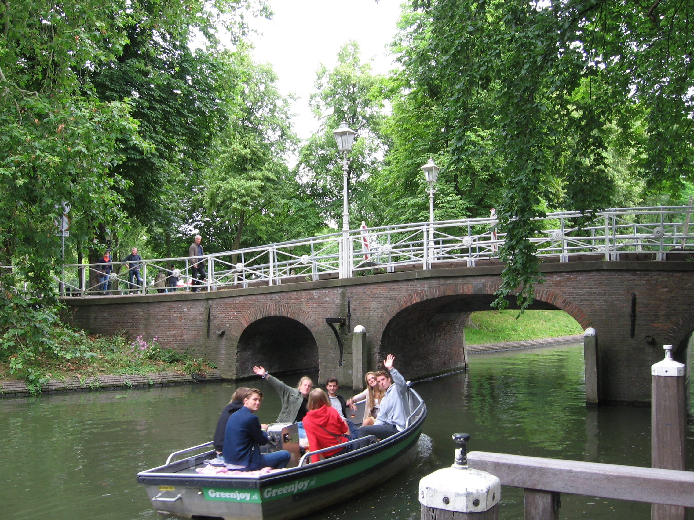 Maliebaanbrug, Maliebrug, Utrecht 2019